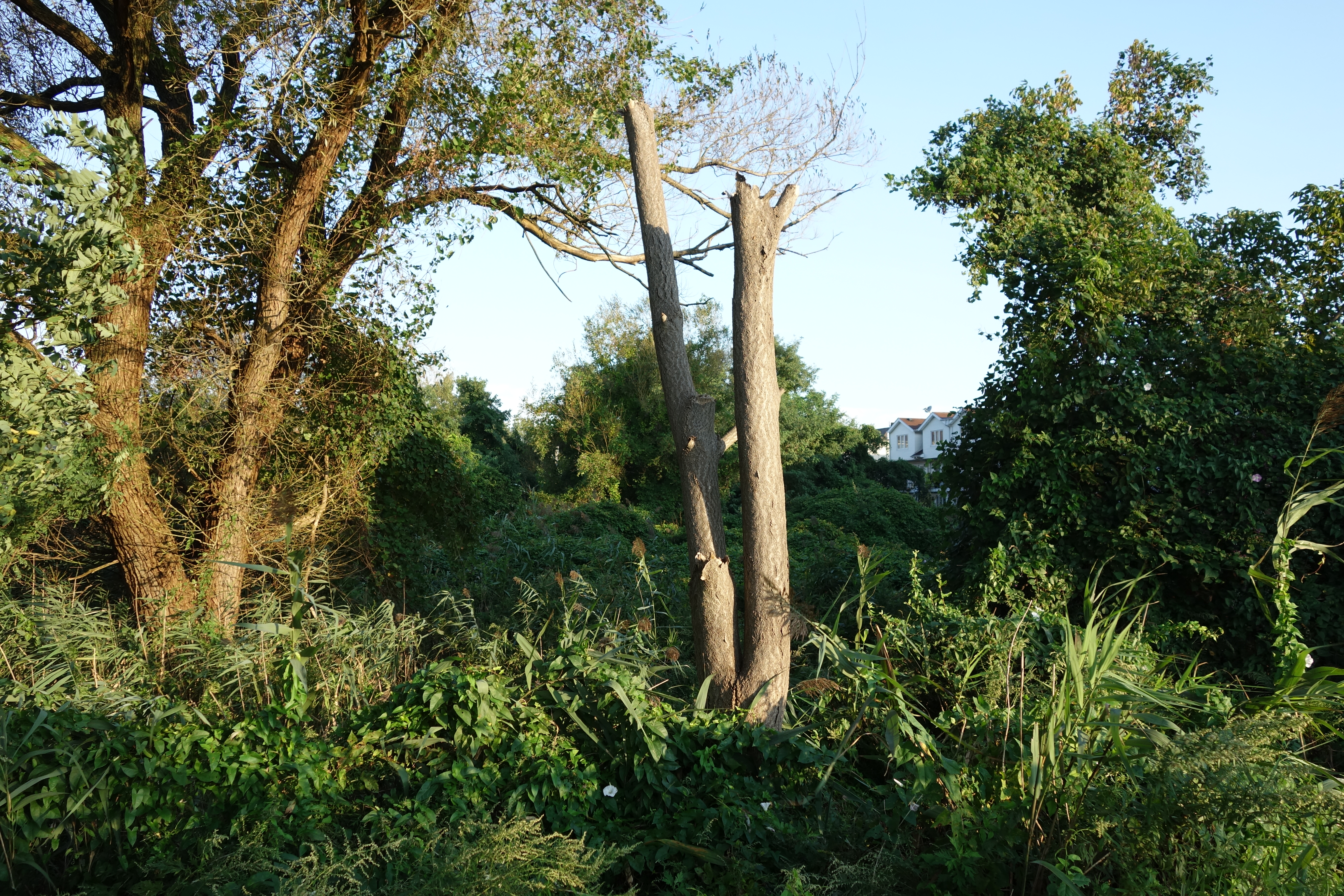 Looking north at the South Beach Wetlands from Father Capodanno Boulevard, between Sand Lane to the east and Quintard Street to the west in South Beach, Staten Island. Much of this land is part of the NYCDEP's Staten Island Bluebelt. According to the Parks Department, only a small portion of this wetland area near Quintard Street is actually part of the South Beach Wetlands park.